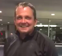 At Philadelphia Airport